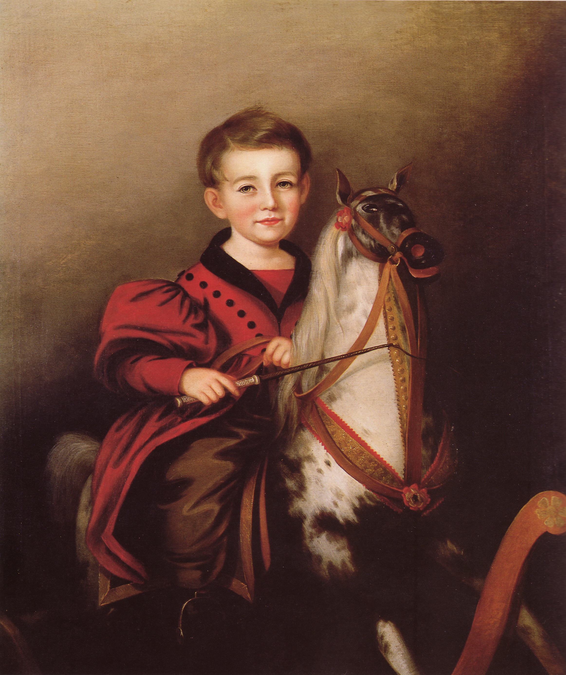 Painting Charles Lavallen Jessop (Boy on a Rocking Horse) by Sarah Miriam Peale